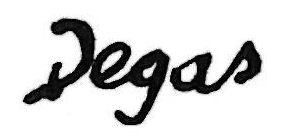 autograph of the painter Edgar Degas